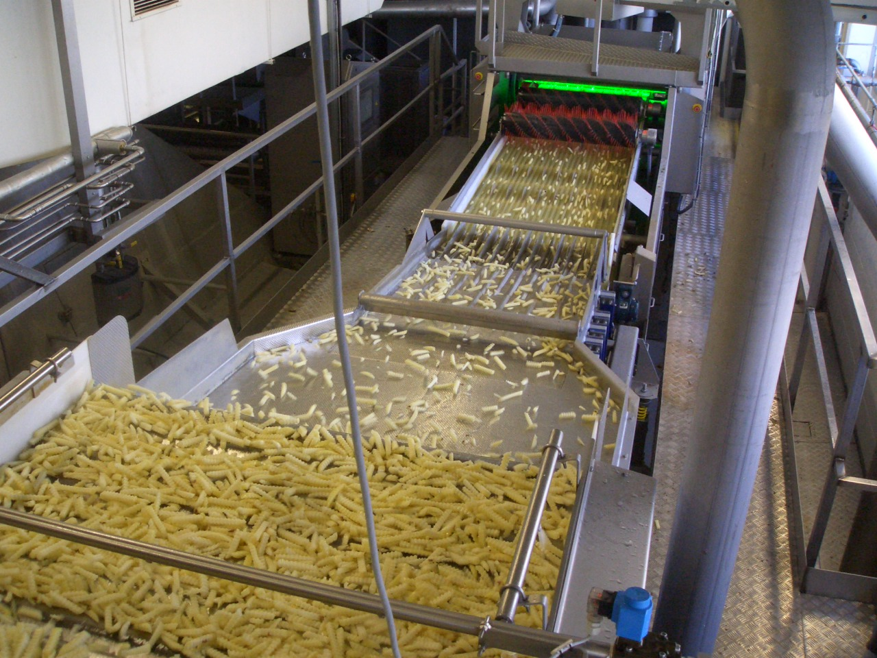 Potato strip production line